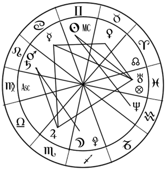 This is a drawing of the chart of the inception of the astrology wikiproject that I made myself. I plan to use it in the project's main template.